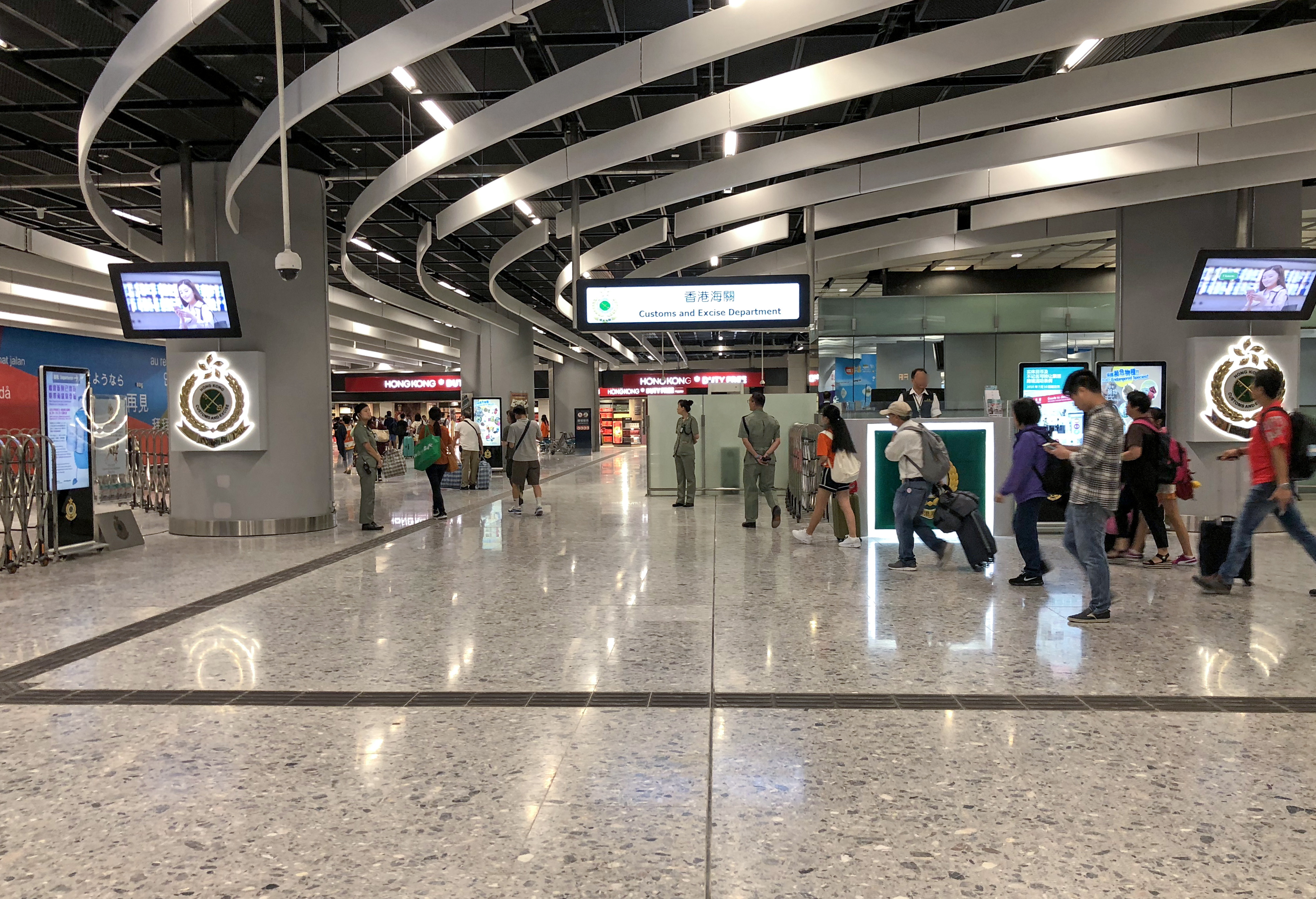 After passing the customs, a duty free shop is ahead, then the mainland port area.